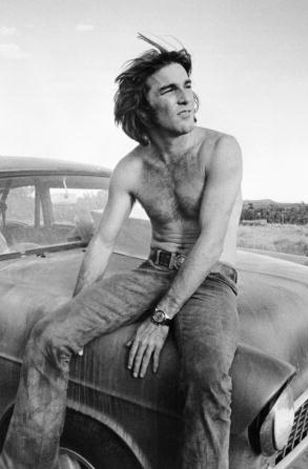 Cropped 1971 promotional photo of Dennis Wilson for "Two-Lane Blacktop".